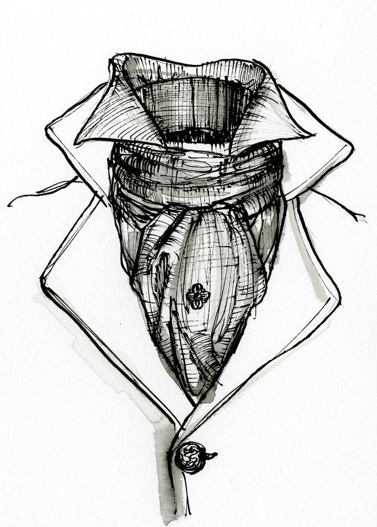 Drawing of the Thesaurus concept : 'cravat'. Formal neckcloths consisting of long strips of fine cloth wound around the neck and tied in front into a bow or knot. Ends may also tuck inside a coat. Worn especially from the end of the 17th century through the 19th century. For long, narrow lengths of cloth worn around the neck and usually under a collar, tied in a knot, loop, or bow, and often with two ends falling free vertically, use "neckties." (AAT)